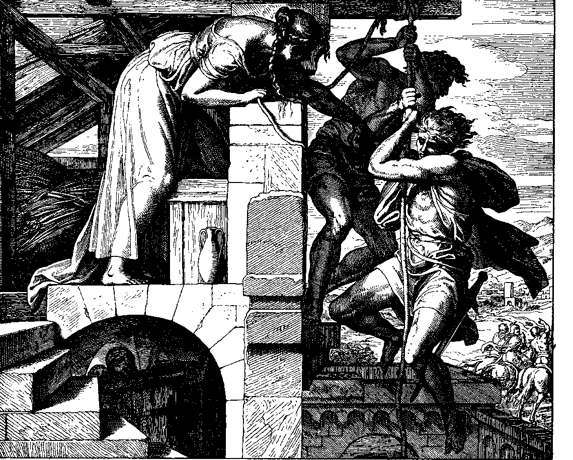 Escape from Rahab's House, as in Joshua 2, Woodcut for "Die Bibel in Bildern", 1860.